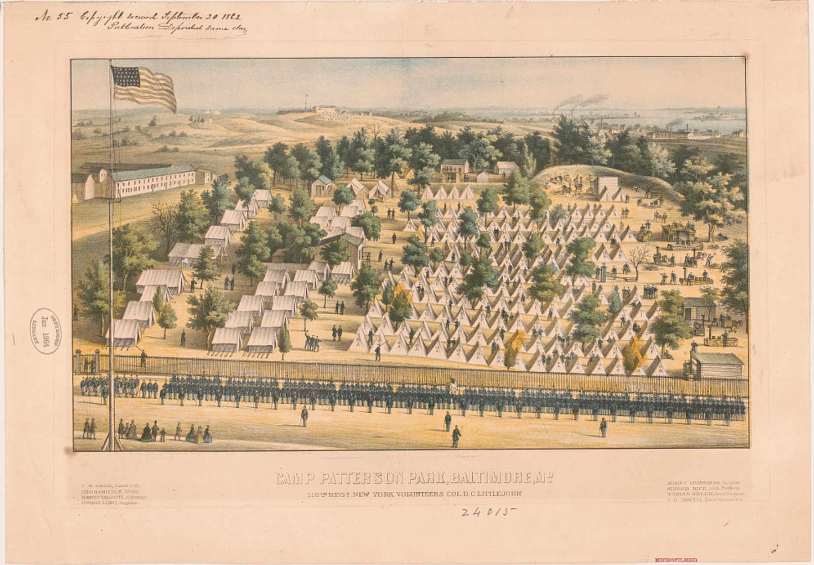 110th Regiment New York Volunteers at Camp Patterson Park, Baltimore, Md., Library of Congress Prints and Photographs Division